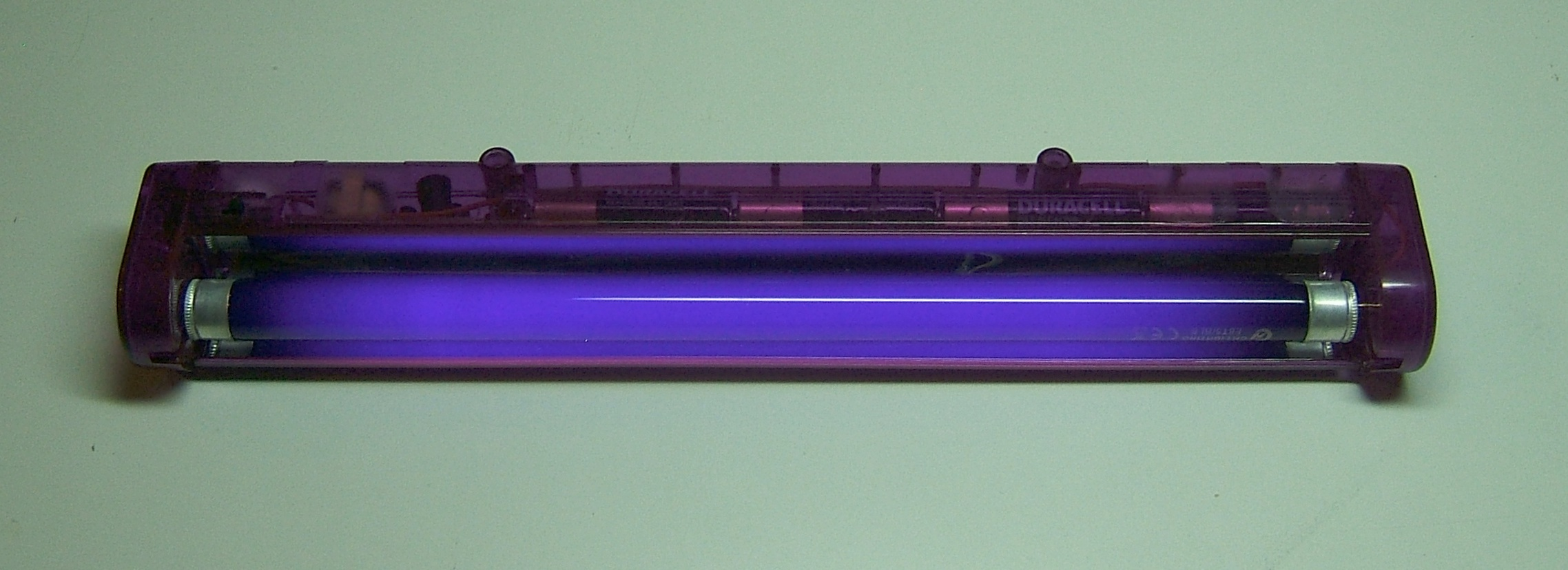 A portable "black light" ultraviolet fluorescent lamp, sold as a pet urine detector, to make urine stains on carpet and furniture visible by its fluorescence. It uses an F8T5/BLB 11 inch 8 watt black light UV tube, with a solid state ballast, powered by eight AA size batteries. It radiates "long-wave" or UVA ultraviolet radiation, with a wavelength in the range 350 to 370 nm, which is not dangerous to eyes or skin. The purple glow of the tube is not the ultraviolet radiation itself, which is invisible, but a small amount of visible purple light from mercury's 404 nm spectral line leaking through the blue filtering glass of the tube, which is designed to pass ultraviolet light.